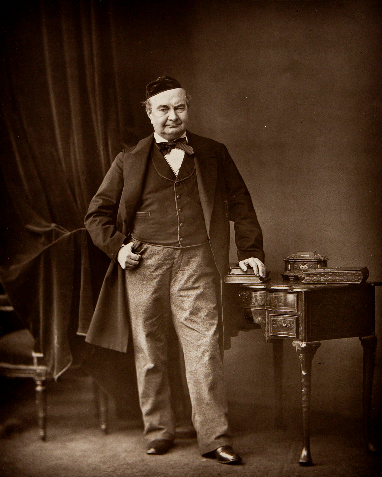 Charles Augustin Sainte-Beuve, French writer (1804 - 1869).